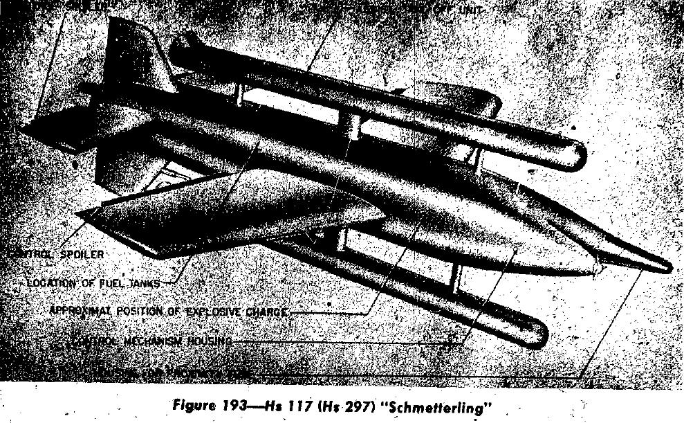 Henschel HS 117 Air launched guided glide torpedo bomb